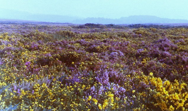 Heath at Woodbury Common, Devon, England - photo User:MPF The image shows both heather (Calluna vulgaris) and gorse (Ulex europaeus) in bloom during the summer.